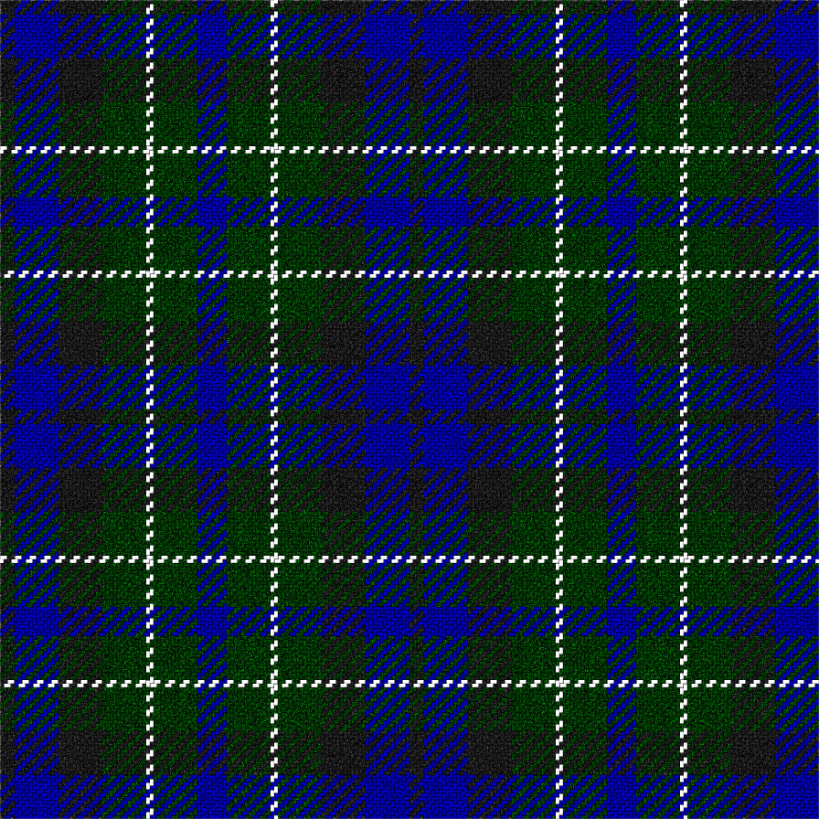 A representation of the Macneil of Colonsay tartan. This tartan is one of the two clan tartans recognised by the chief of Clan Macneil.